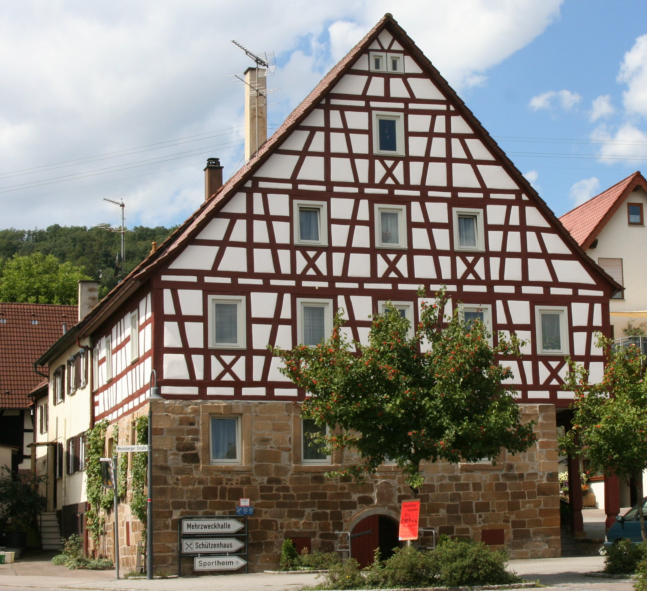 The Haugsches Haus from 1780 in Weinsberg-Gellmersbach